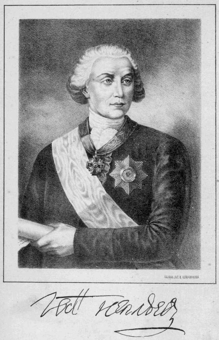 Ivan Neplyuyev